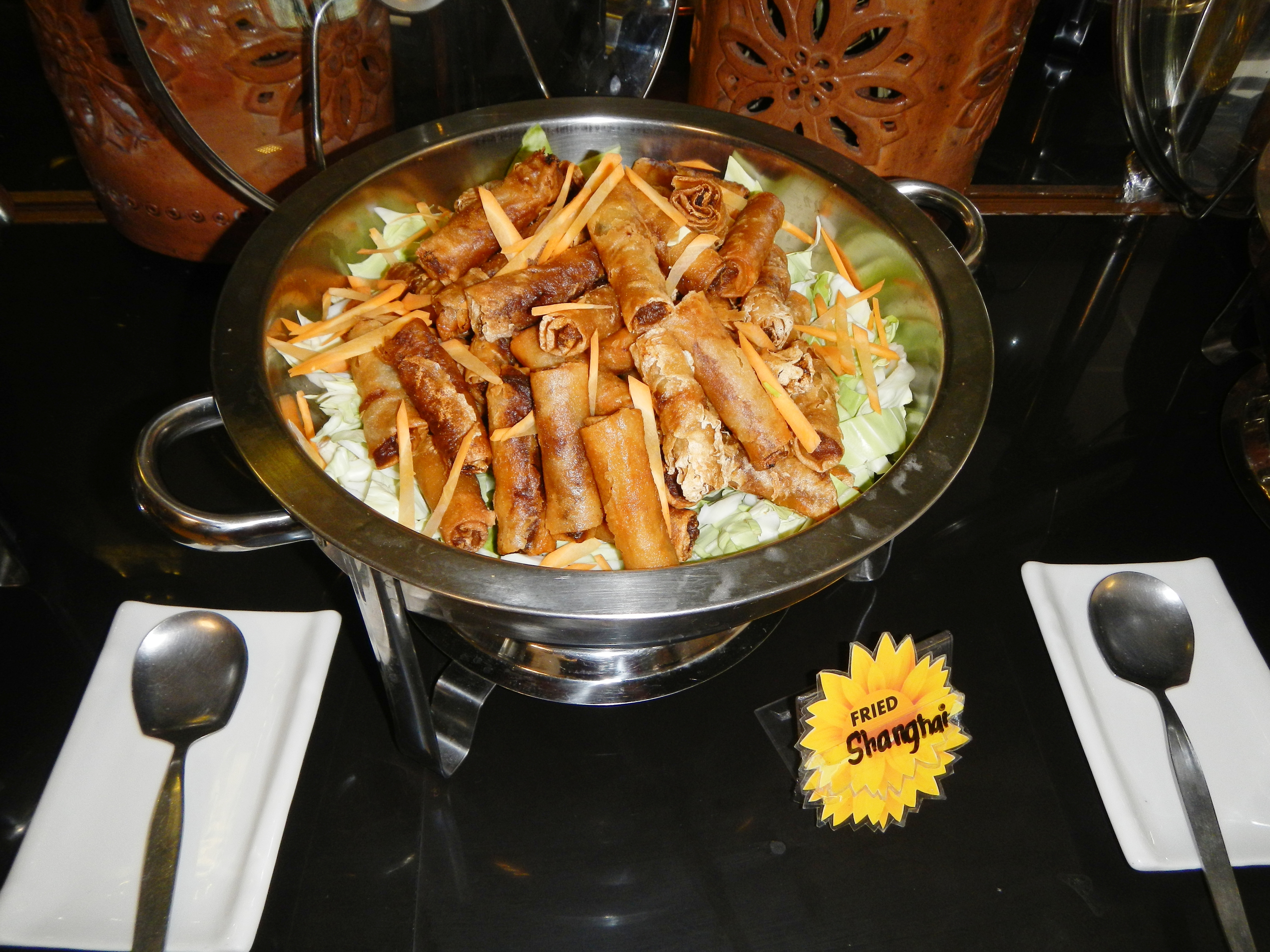 Buffets in the Philippines All-you-can-eat (AYCE) Buffet Catering in Bulacan, Philippines (Barangay Bagong Nayon, Baliuag, Bulacan restaurant, along Cagayan Valley Road in Pan-Philippine Highway).